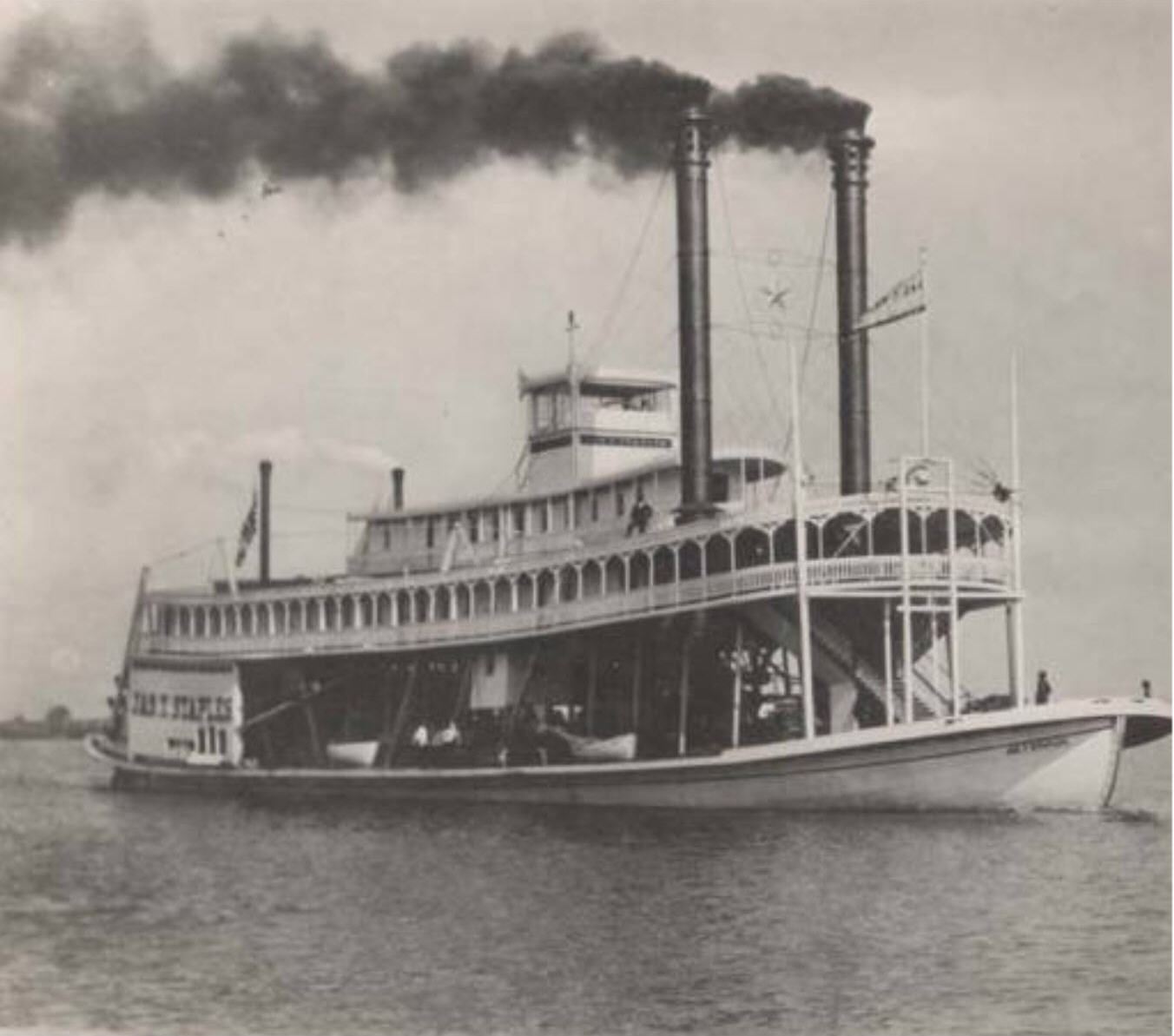 The James T. Staples, docked in Mobile, Alabama. Launched in 1908 at Mobile, it was destroyed in a boiler explosion on January 10, 1913. Behind it is the river packet City of Mobile.